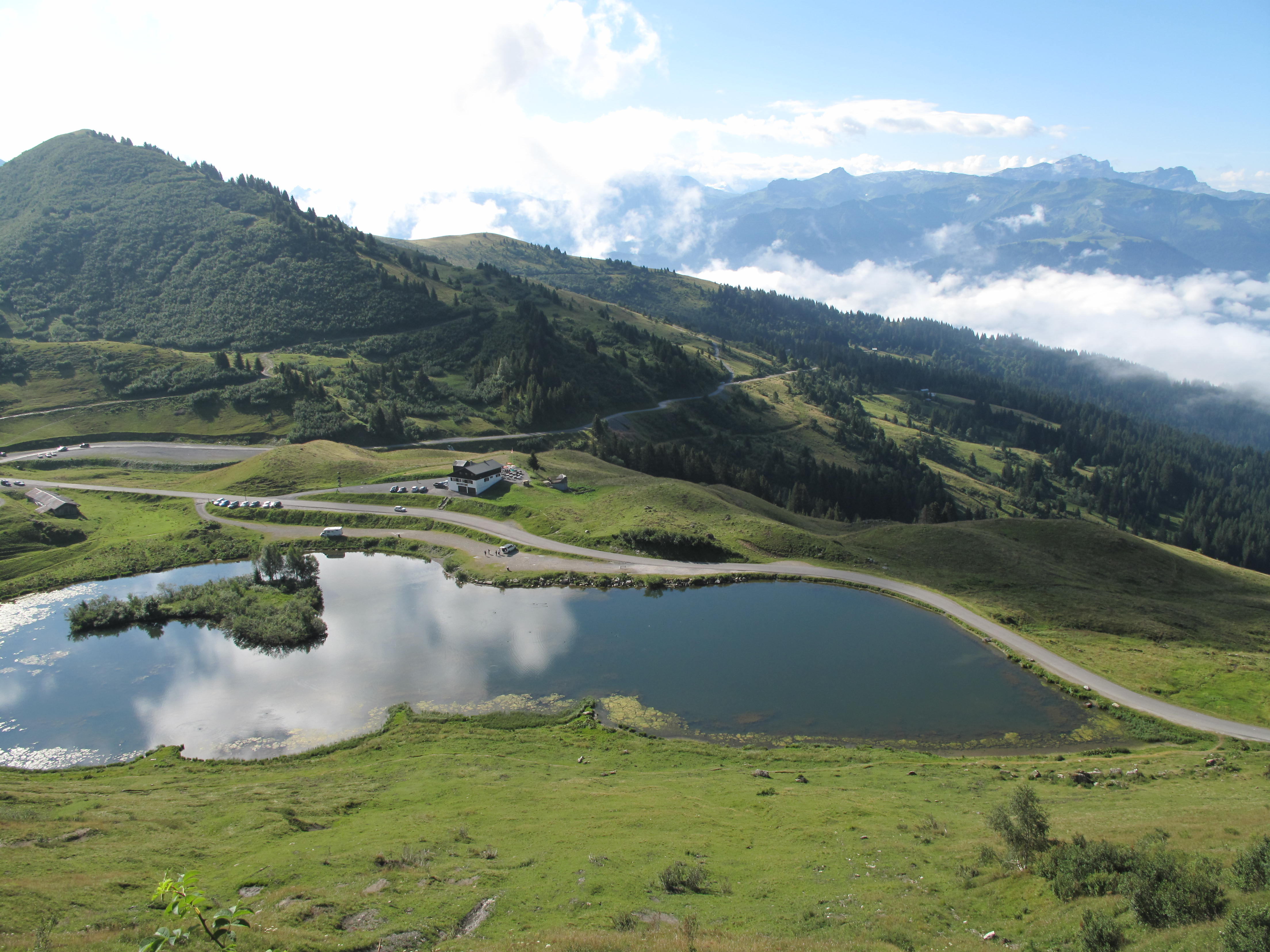 Mountain pass of Joux-Plane (Haute-Savoie, France).